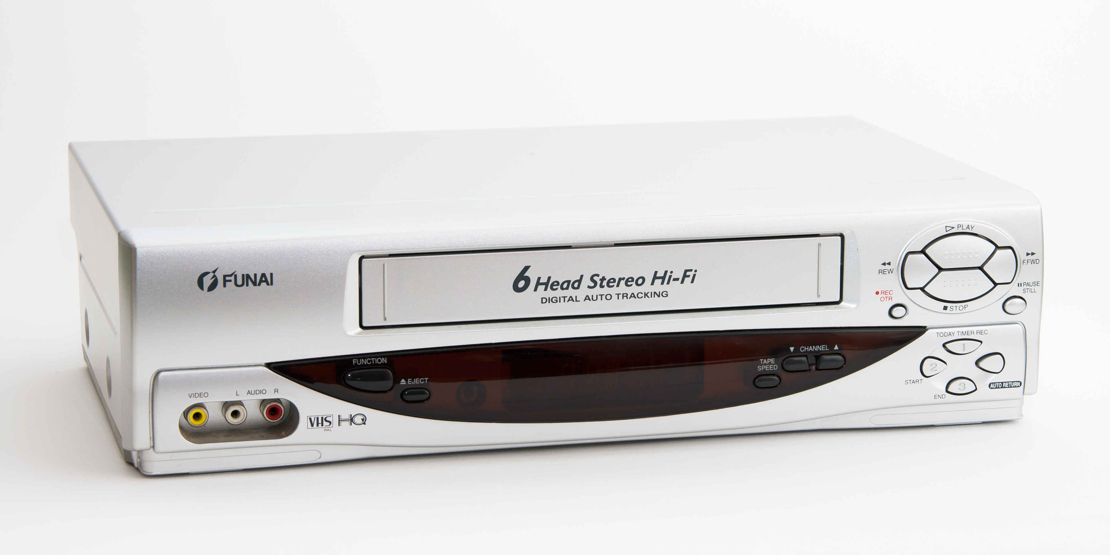 Typical VHS cassette recorder from beginning of 2000s